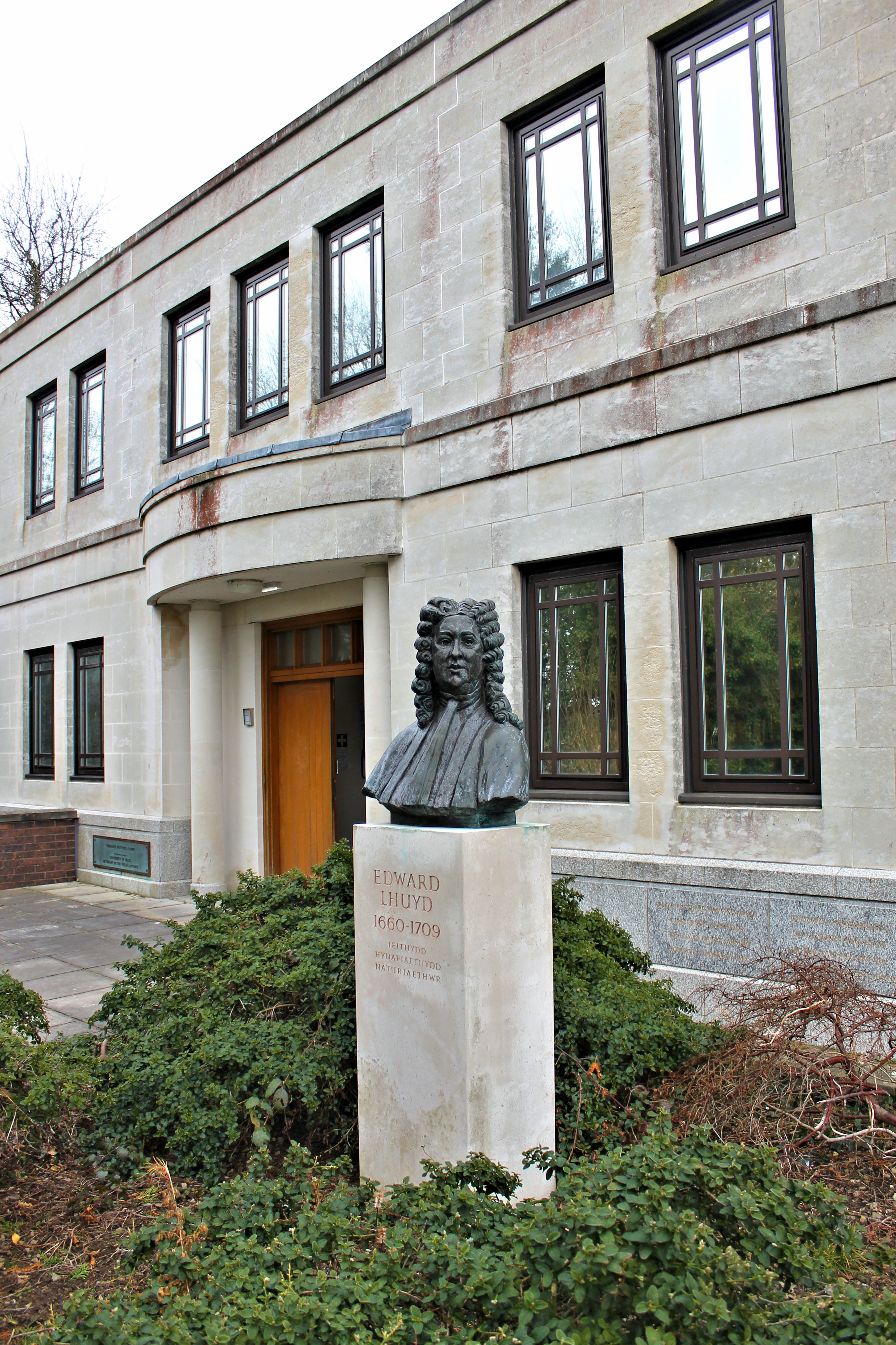 University of Wales Centre for Advanced Welsh and Celtic Studies building at the National Library of Wales, Aberystwyth, Ceredigion.